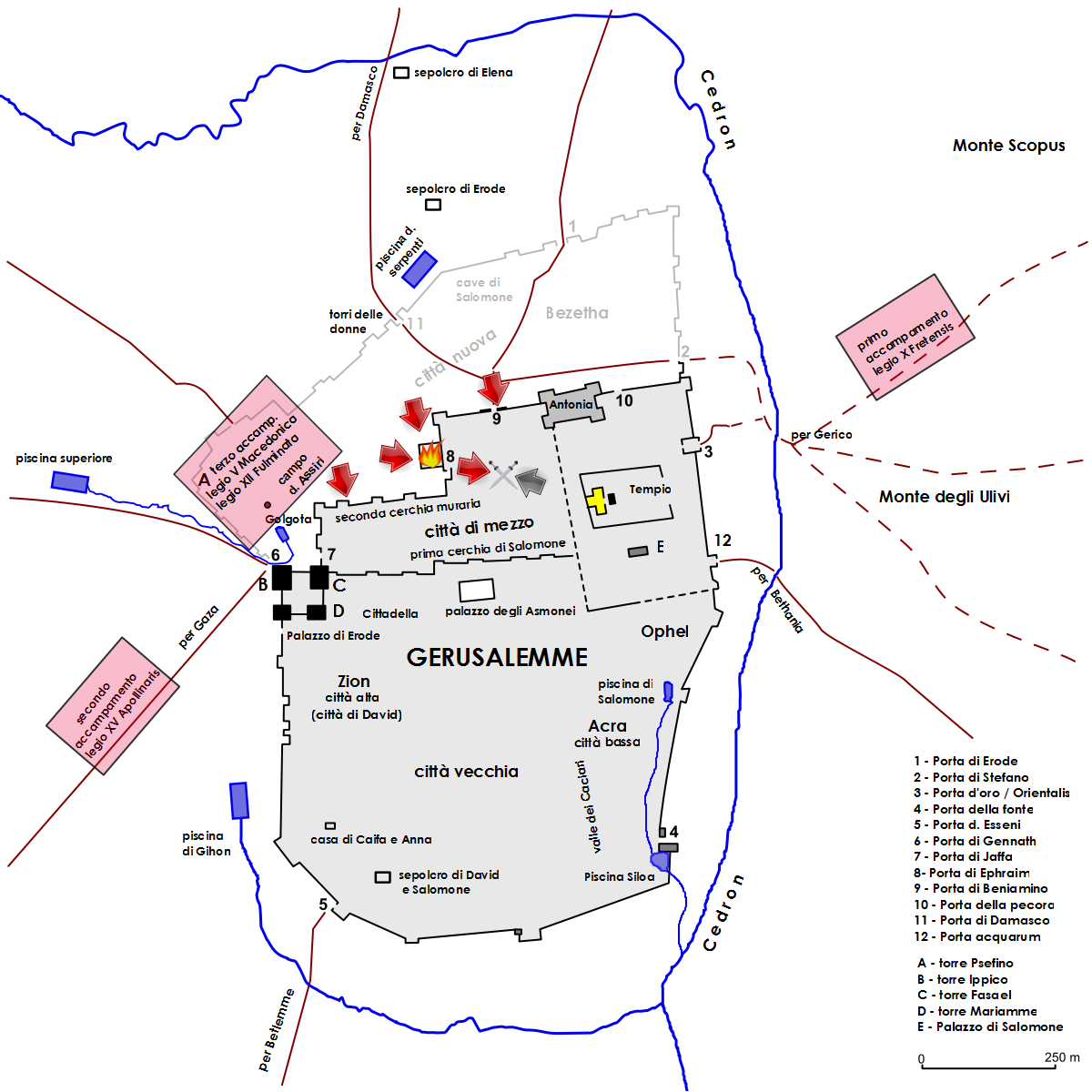 Jerusalem at the time on siege of 70 - 4th step